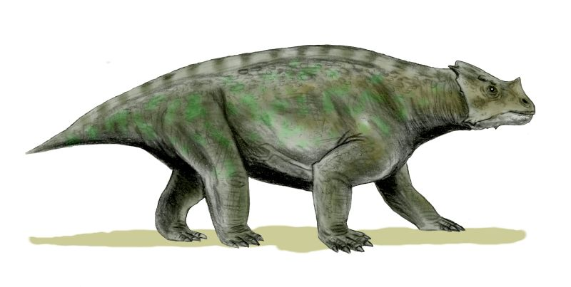 Arganaceras vacanti, a pareiasaur from the Upper Permian of Morocco, after Jalil and Janvier (2005), pencil drawing